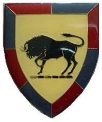 SADF era Army College emblem